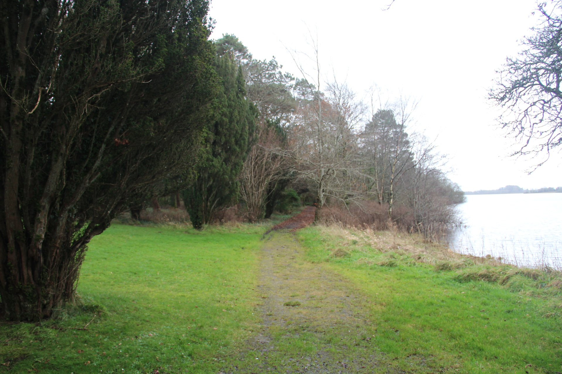 Pathway to wishing chair and rockery